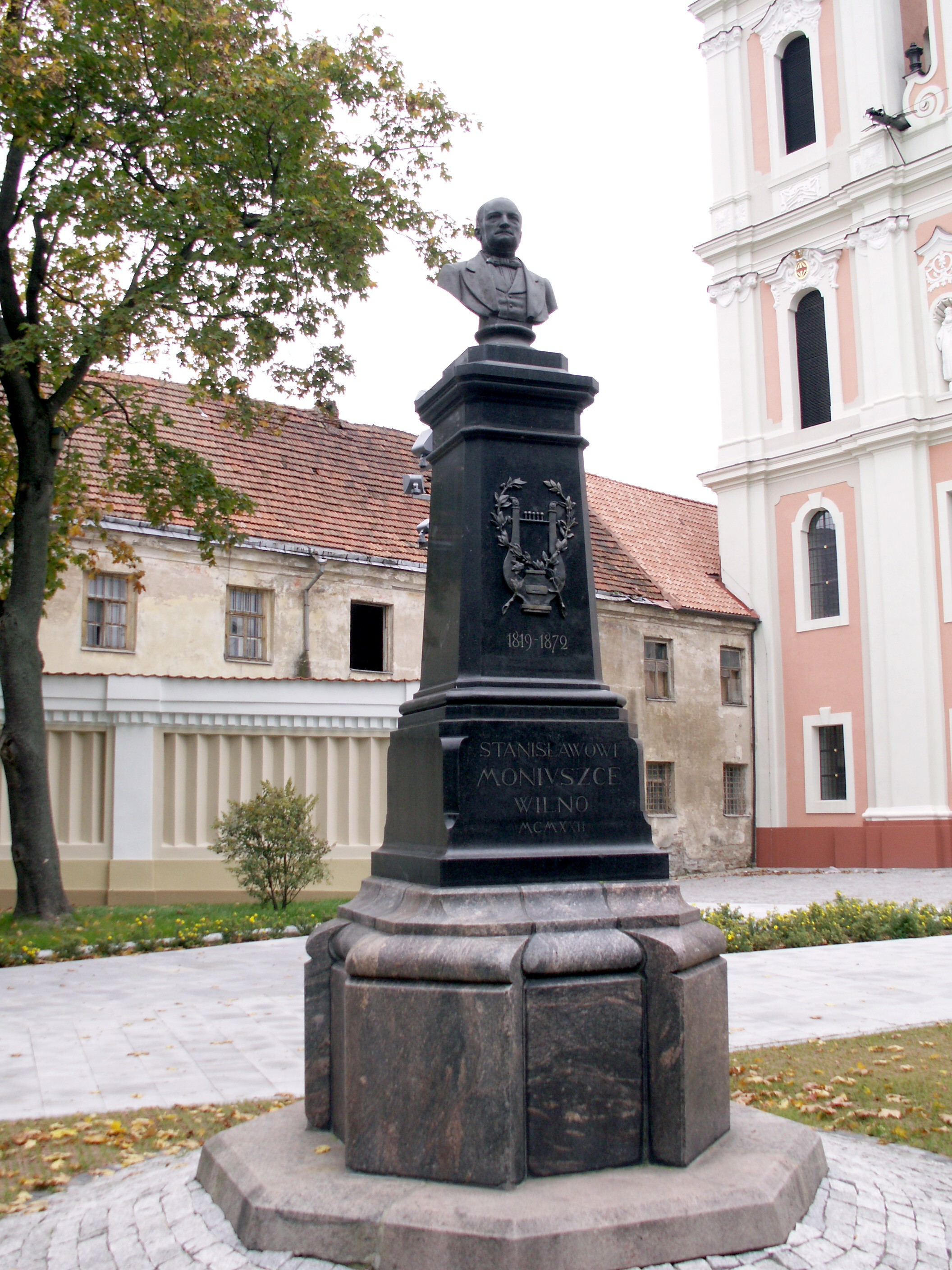 Bust of Stanisław Moniuszko in Vilnius, Lithuania